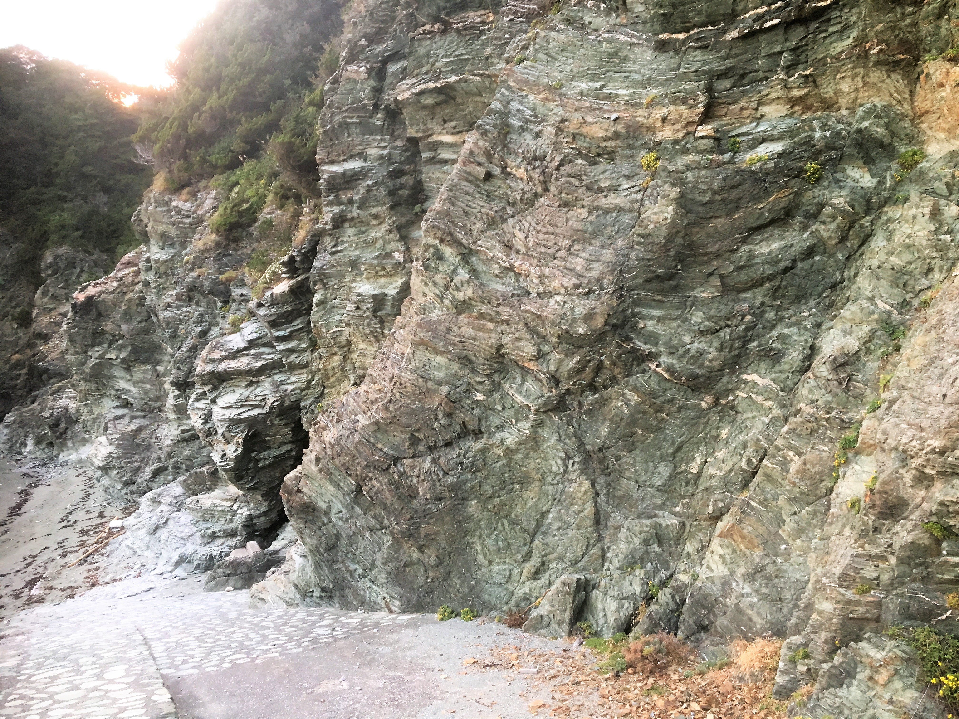 Greenschist